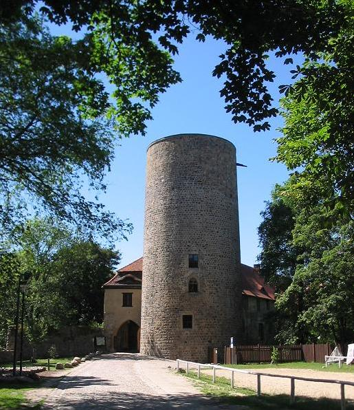 Rabenstein Castle (german for crowstone) in the Naturpark Hoher Fläming nearby Raben, built in the middle of the 12th century; portal and keep. The village Raben is a part of the municipality Rabenstein/Fläming in the district Potsdam Mittelmark, state Brandenburg, Germany.